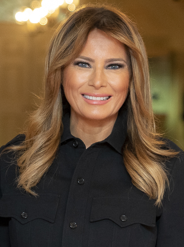 President Donald J. Trump and First Lady Melania Trump pose for a photo in the Center Hall of the White House Wednesday, Sept. 11, 2019, after observing a moment of silence on the South Lawn in honor of the attacks on Sept. 11, 2001. (Official White House Photo by Shealah Craighead)